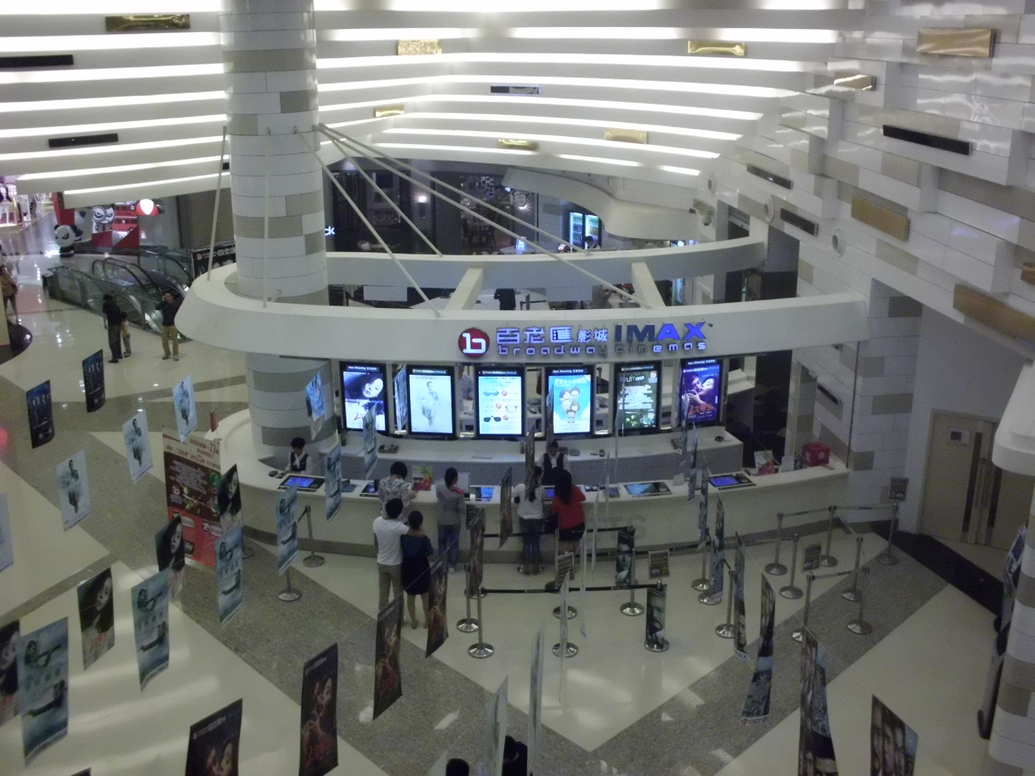 Hangzhou Broadway Cinema